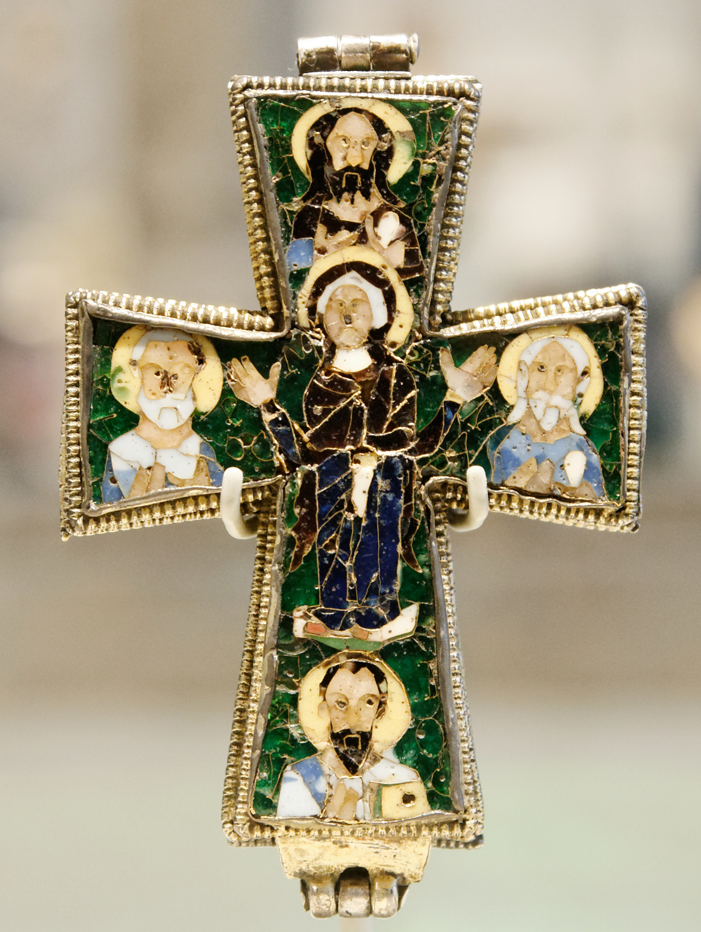 Back panel of a reliquary cross with the praying Virgin surrounded by Saints John, Peter, Andrew and Paul with identifying inscriptions. Probably made in Italy.